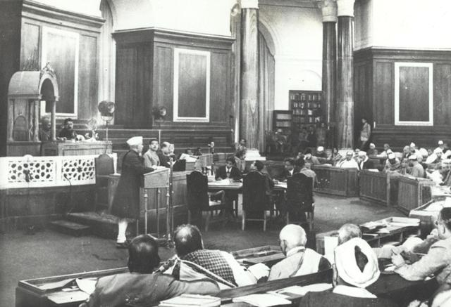 Photographs of the constituent assembly taken on Dec.10, showing Jawaharlal Nehru addressing the House. Dr. Sachchidananda Sinha provisional Chairman in the presidential chair. On Jawaharlal Nehru’s left is Mr. H.V.R. Iyengar, Secretary, Constituent Assembly Sectt.(13/12/1946)